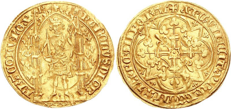 France, Royal. Charles V dit le Sage (the Wise). 1364-1380. AV Franc à pied (3.78 g, 12h). La Rochelle mint. Struck 1365. Charles standing facing, holding sword, in Gothic arch flanked by lis; KAROLVS x DI x GR FRANCOR x REX ; there is an R at end of legend Ornate cross with trefoils at ends; lis and crowns in quarters; all within tressure; lis in angles. XPC* VINCIT x XRC REGNAT XRC* IMPERAT Duplessy 360E; Lafaurie -; Ciani 468.